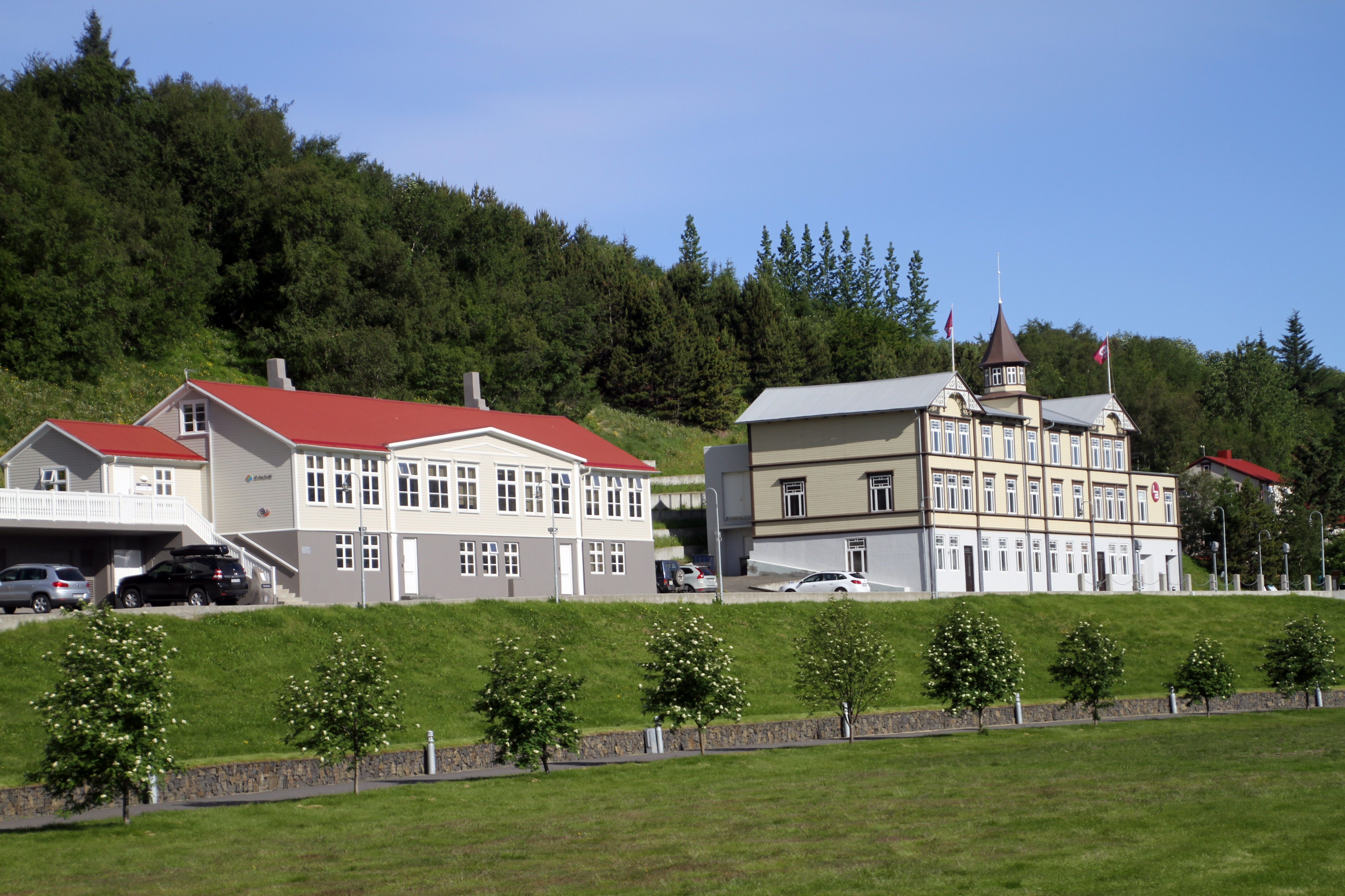 Akureyri in Iceland